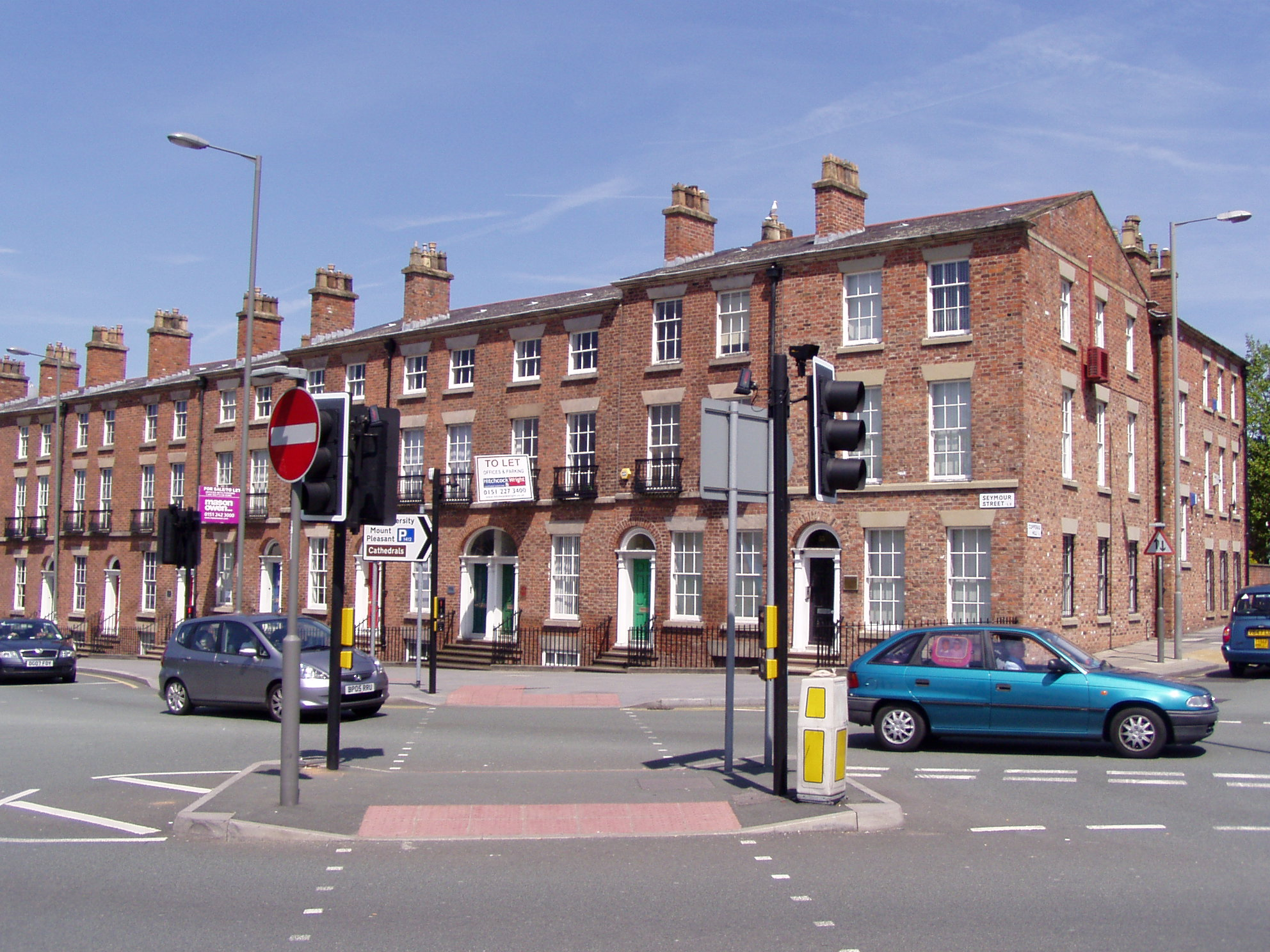 Seymour Street